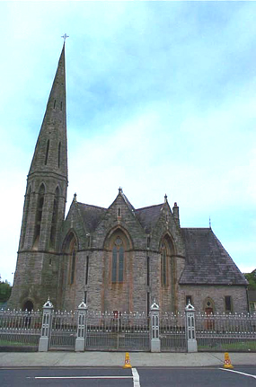 Westport, Co Mayo, Holy Trinity Anglican Church.